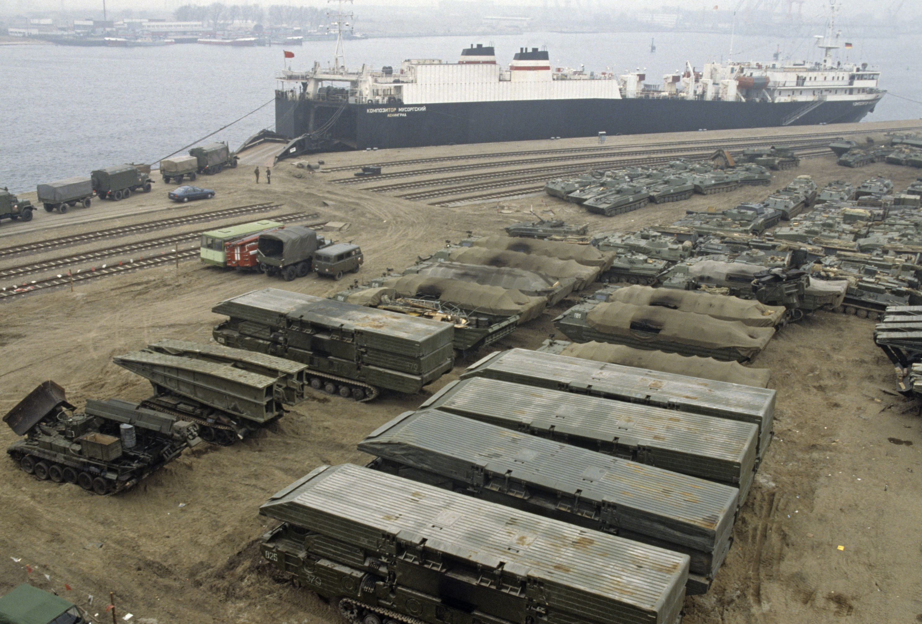 “Soviet military equipment loaded in Rostock”. Soviet military equipment being loaded on the ferry Kompozitor Musorgskiy in Rostock as the USSR withdraws its troops from Germany.